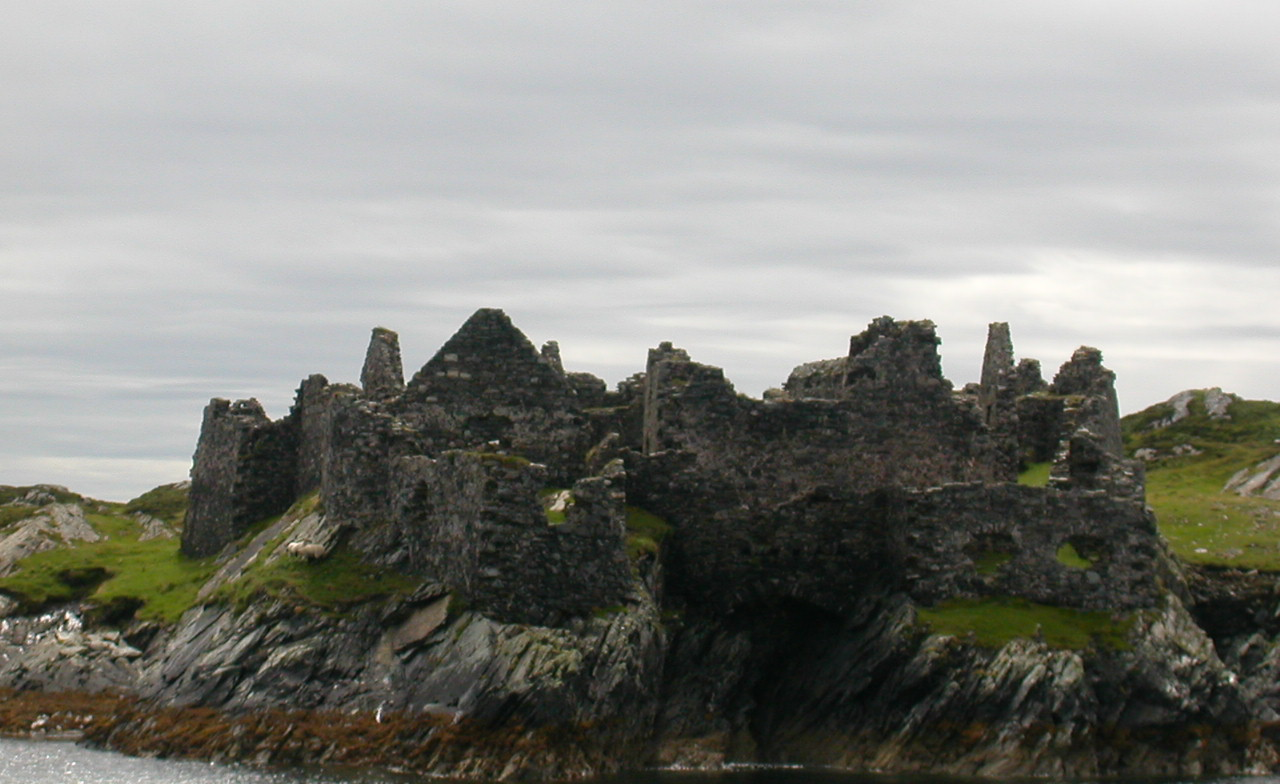 Fort on the Irish island of Inishbofin